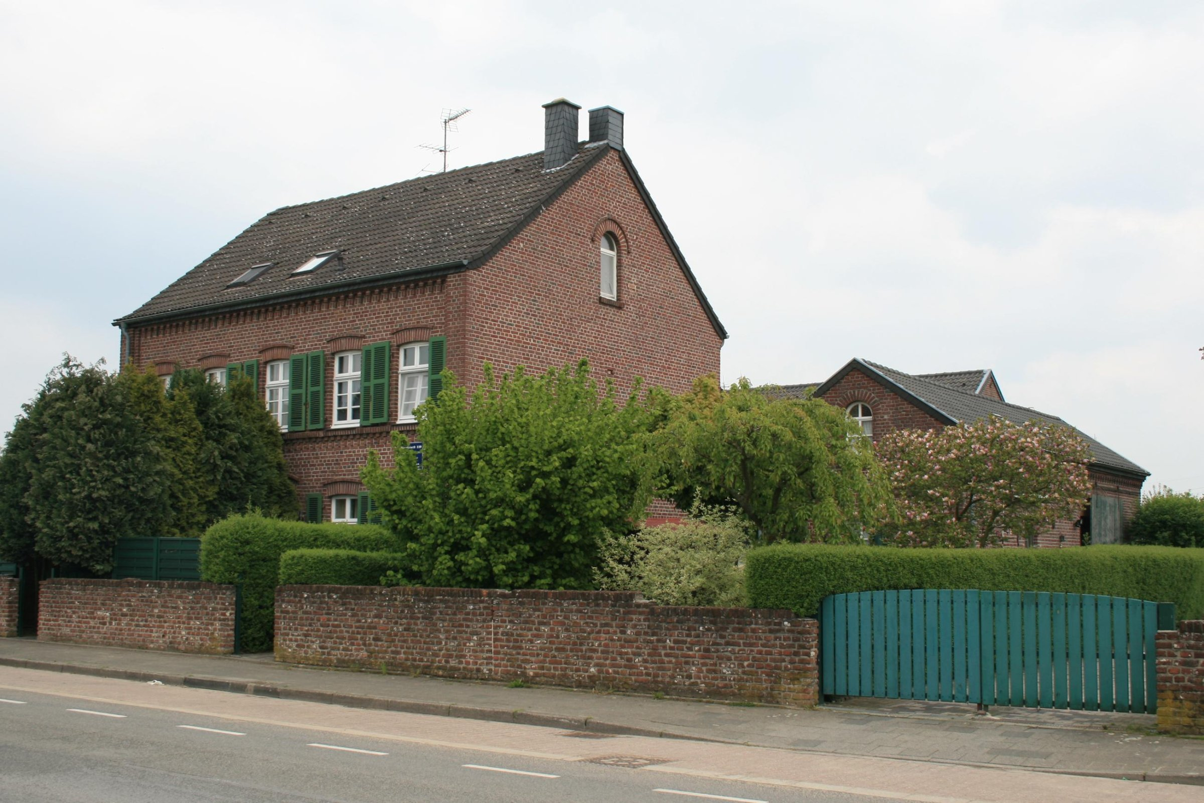 Cultural heritage monument No. W 021 in Mönchengladbach